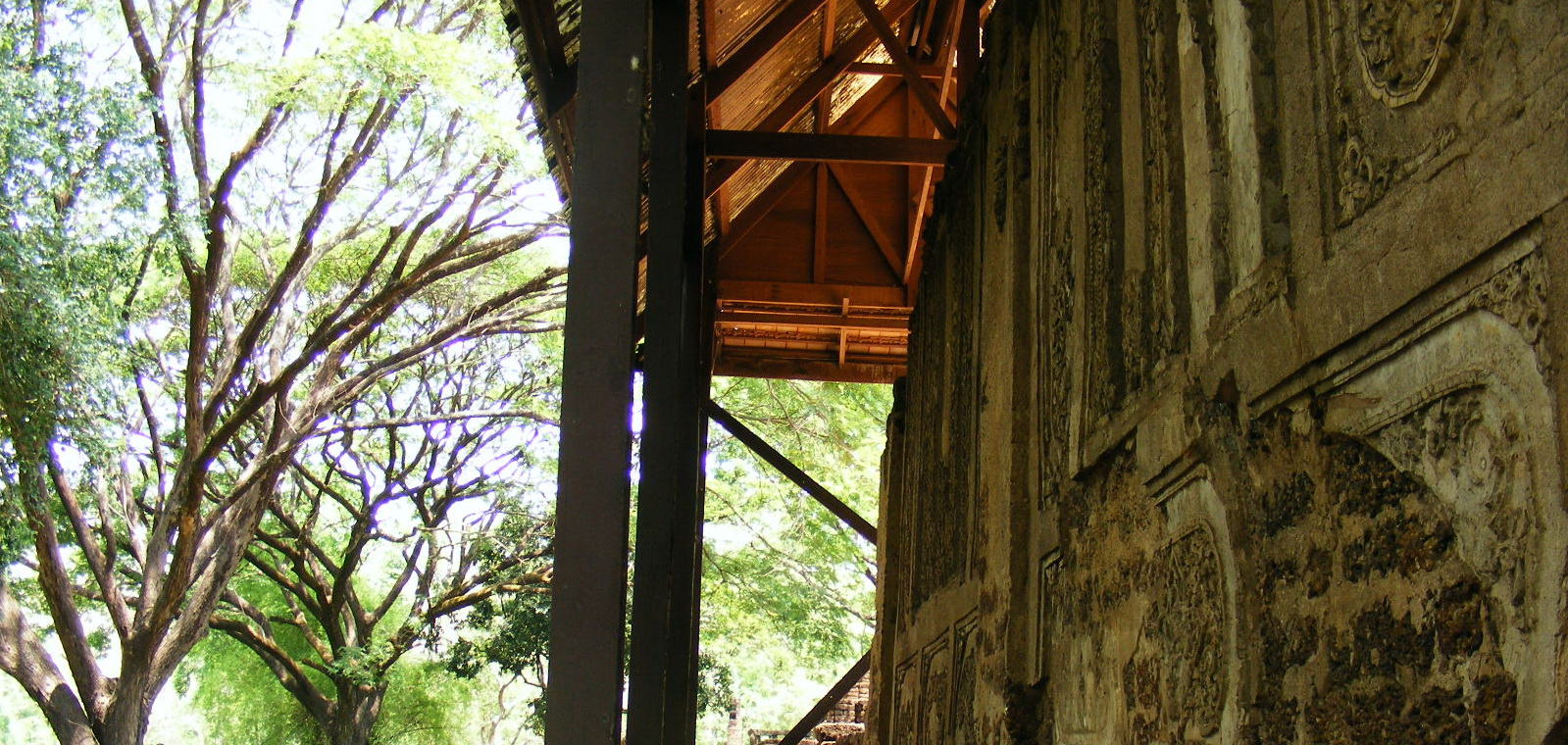 Wat Nang Paya Si Satchanalai historical parkLocation: Si Satchanalai, Sukothai Province, Thailand.